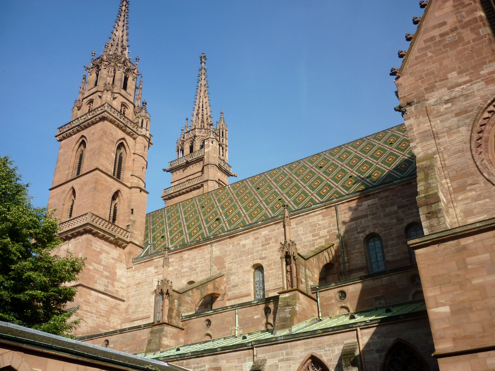 Basel Minster